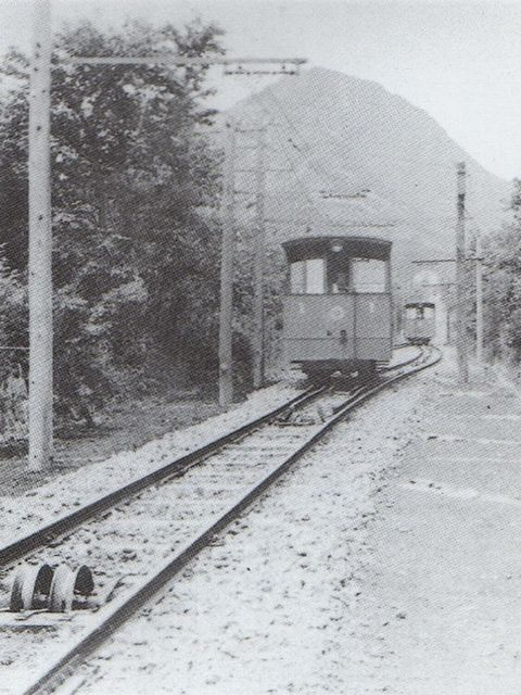 Odawara Electric Railways cable car in about 1921